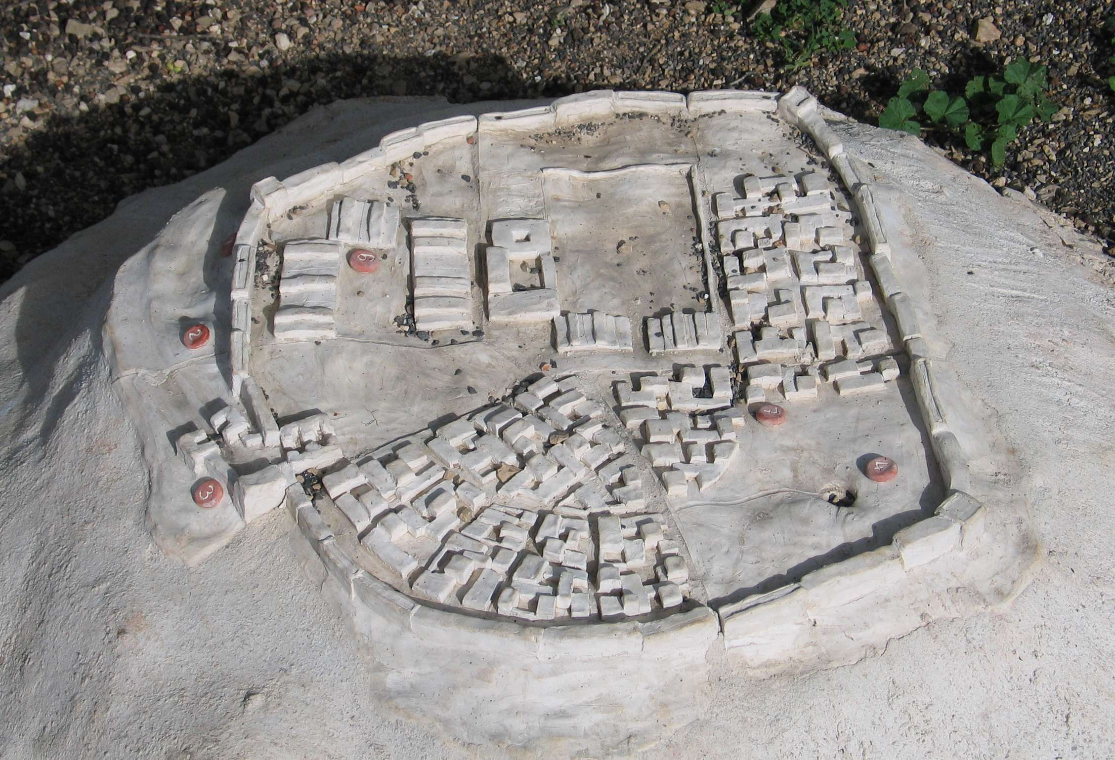 Tel Yokneam, Israel.